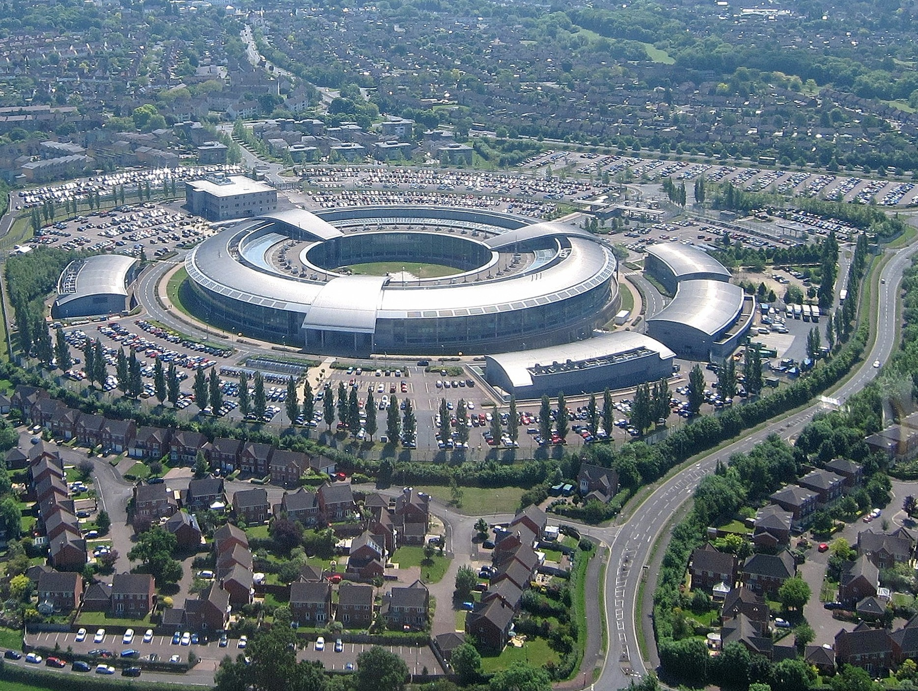 Government Communications Headquarters, Cheltenham, Gloucestershire, England. Built 2002. Quote from the GCHQ website: “Employing over 6,000 people from a range of diverse backgrounds, we strive to keep Britain safe and secure by working with our partners in the Secret Intelligence Service (MI6) and MI5. Our headquarters is based in Cheltenham, with regional hubs in Scarborough, Bude, Harrogate and Manchester”. Looking south-east from a Piper Cherokee Warrior (reg G-BBXW) during a pleasure flight from Gloucestershire Airport.